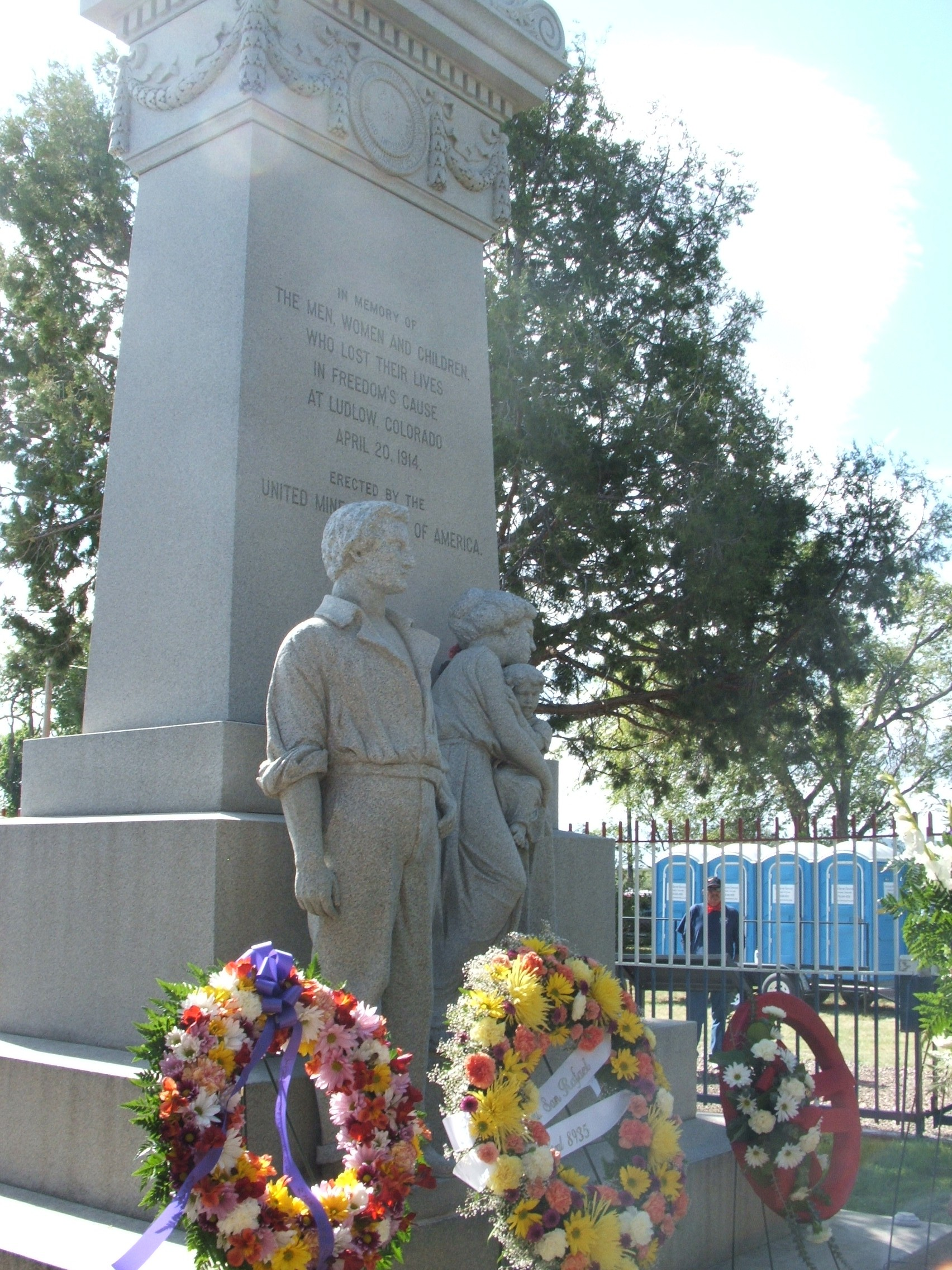 The Ludlow monument, during the ceremony celebrating the designation of the Ludlow Tent Colony site as a National Historic Landmark, 19 January 2008. Photo by Laura Markwardt.